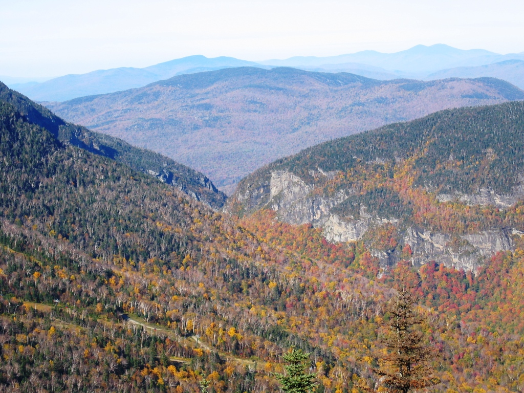 An autumnal view of Smugglers Notch from the South, high on Mount Mansfield